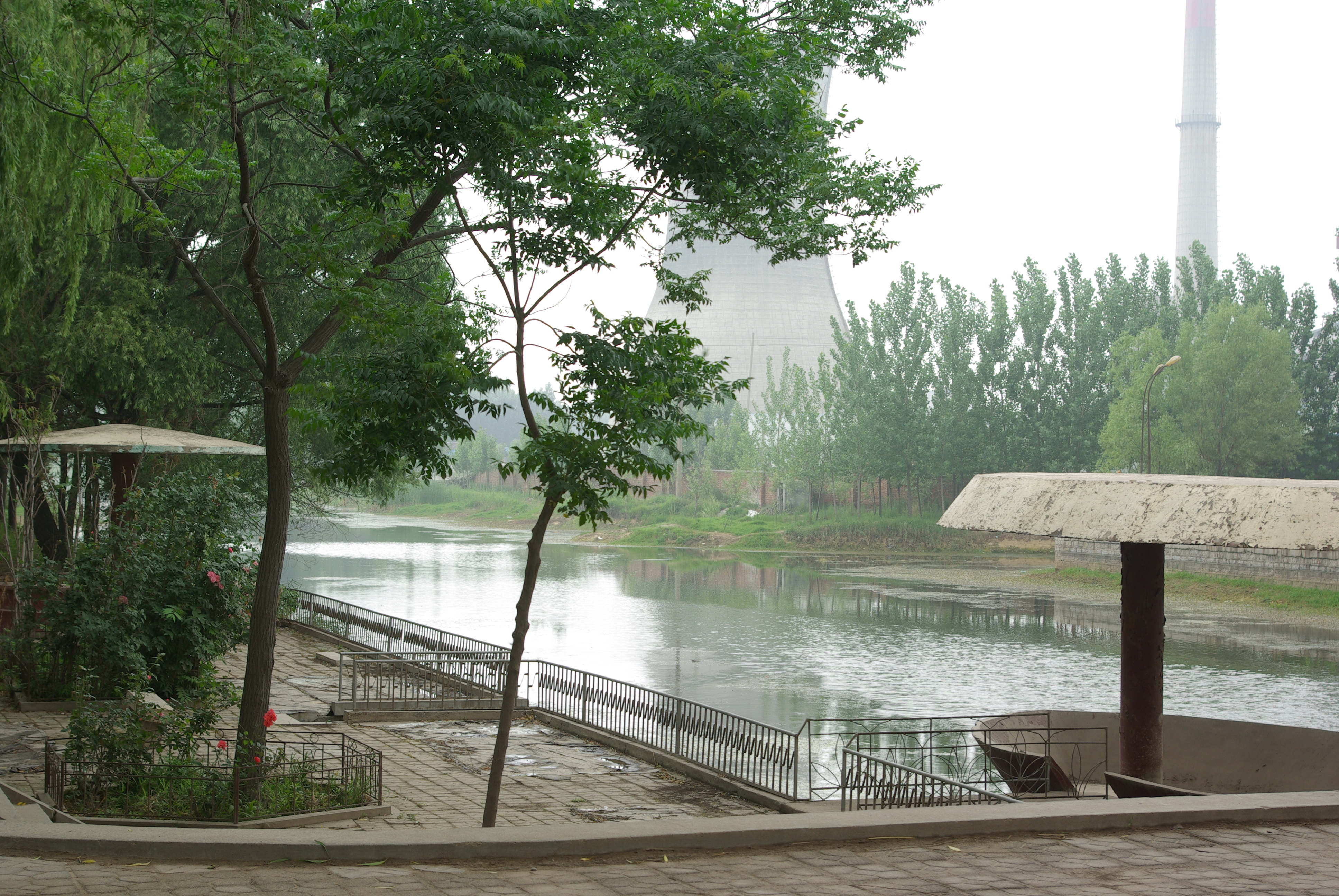 zhimaigou river